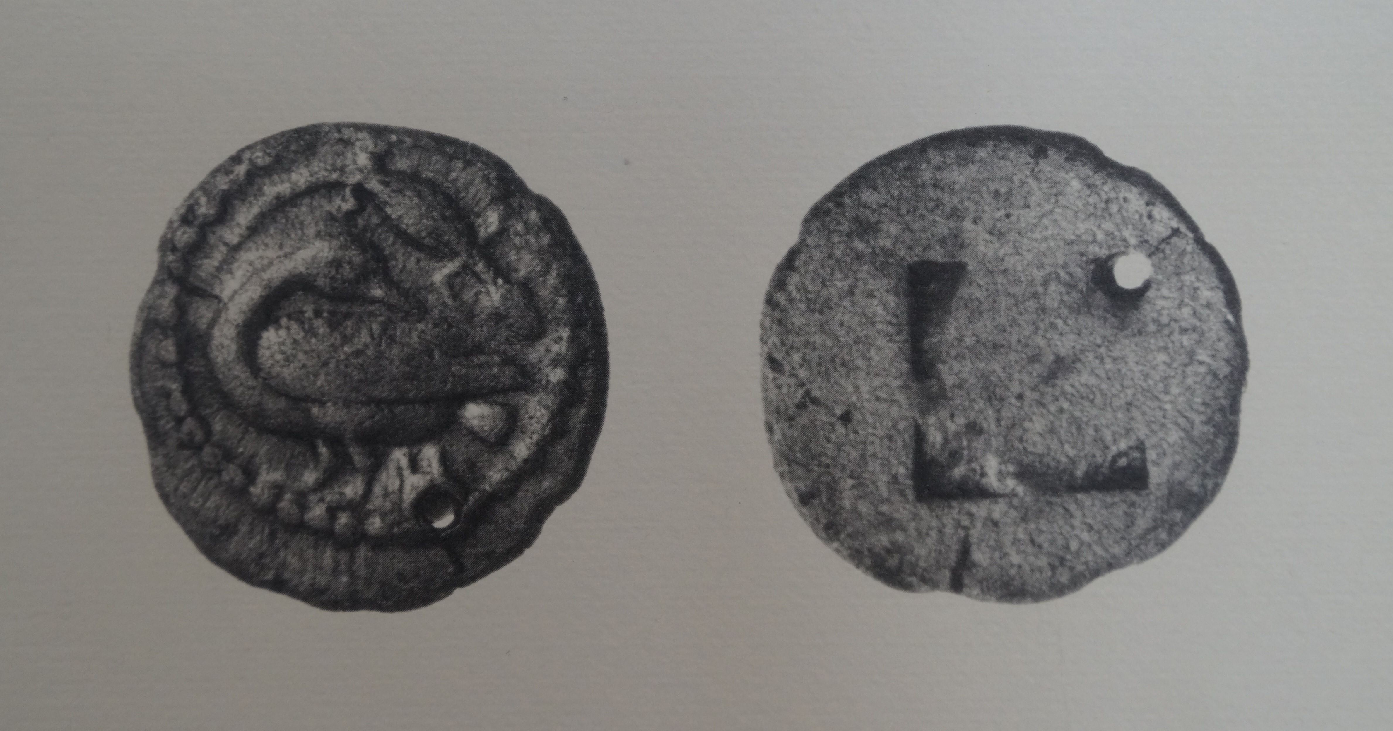 Amphipoli, Makedonia, Greece: Archaeological Museum of Amphipolis: Representation of a Coin from Eion on Strymon.